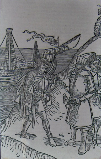 Prince Cem, brother of sultan Bayezid II and claimant to the throne, asking protection at the Spanish captain of the Bodrum castle; woodcut retrieved from the Ulm edition(1496) of the book about Cem's life.